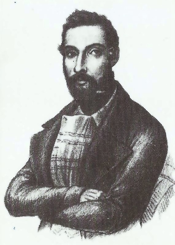 Retrat de Josep Maria Bonilla dins el llibre "Un periodista romántico en la revolución burguesa: José María Bonilla"